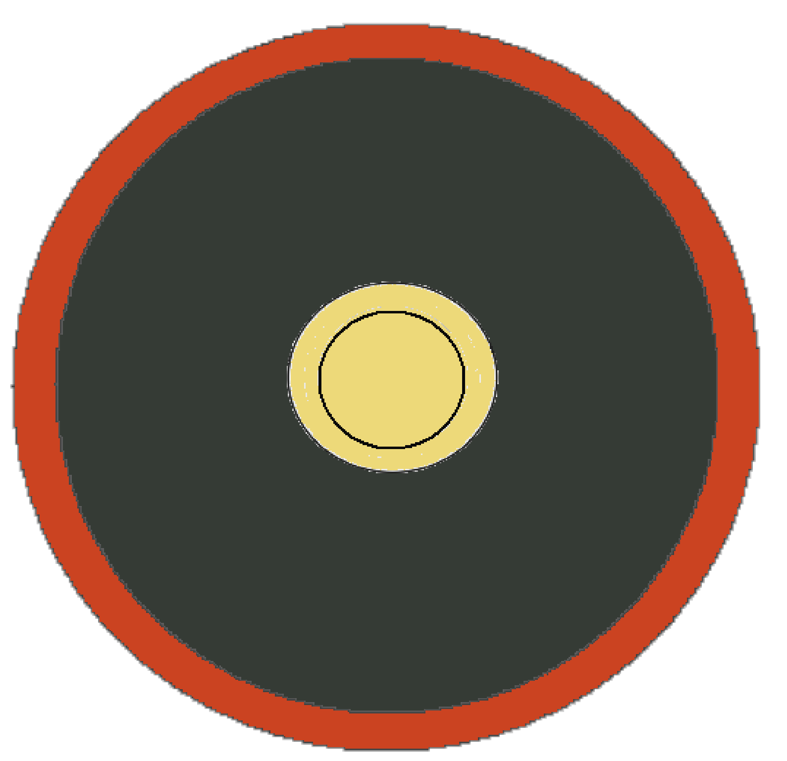 Shield pattern o.t. Propugnatores seniores, one of the legiones comitatenses units listed in the Magister Peditum infantry roster, assigned to the army o.t. Comes Hispaniarum, Notitia Dignitatum, 5th century (Bodleian Manuscript)